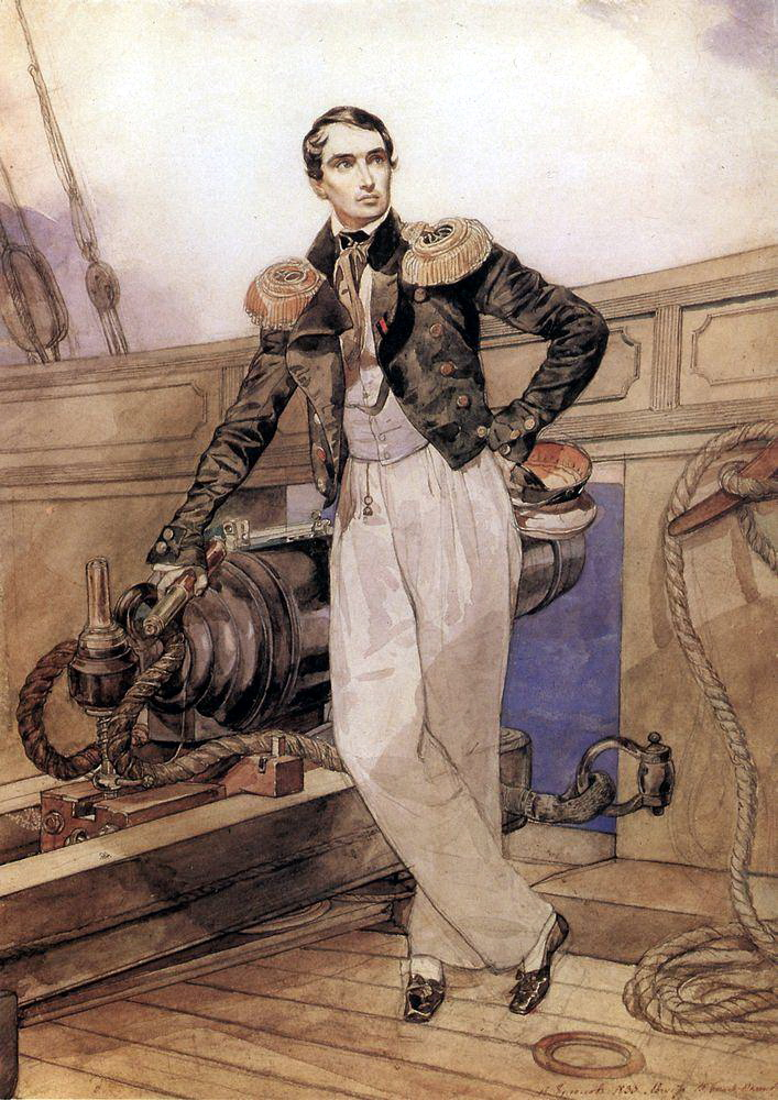 Portrait of V. A. Kornilov (1806—1854) on board of the brig «Themistocles». 1835. Paper, watercolour, pencil, varnish. 40.4 x 28.9 сm. The State Russian Museum, St. Petersburg, Russia. The Portrait of V. A. Kornilov, Captain of brig «Themistocles», was painted during an expedition in Greece and Turkey. Athens, 1835